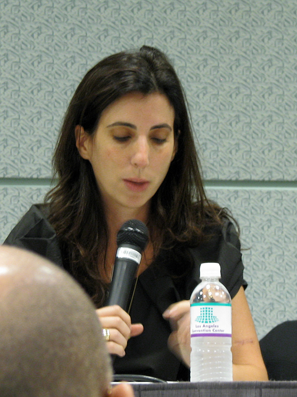 The Devil Wears Prada screenwriter Aline Brosh McKenna She put her glasses on once the panel was finished.